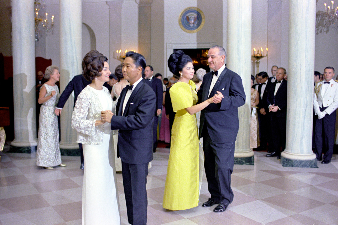 Philippine President Ferdinand Marcos and his wife Imelda come to Washington for a state dinner followed by dancing in the Main Lobby of the White House.